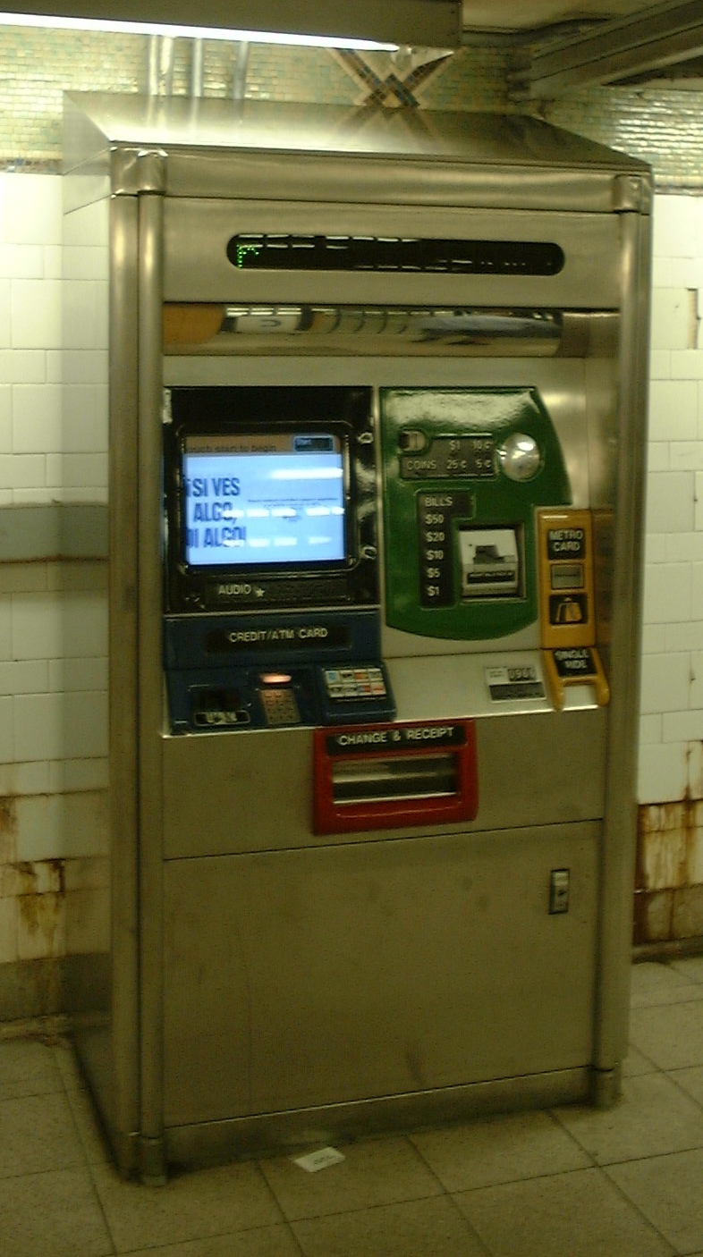 Photo of a Metrocard Vending Machine, found in each subway station in theNew York City Subway system.